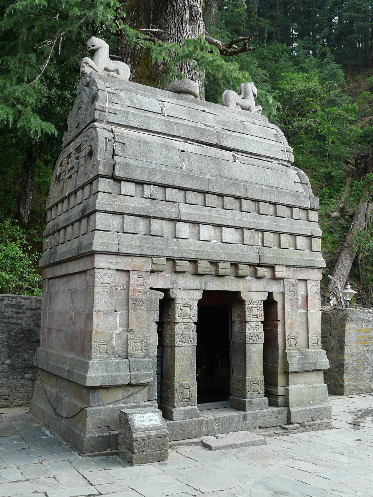 One of the smaller shrines Jageshwar Temple, Uttarakhand, India